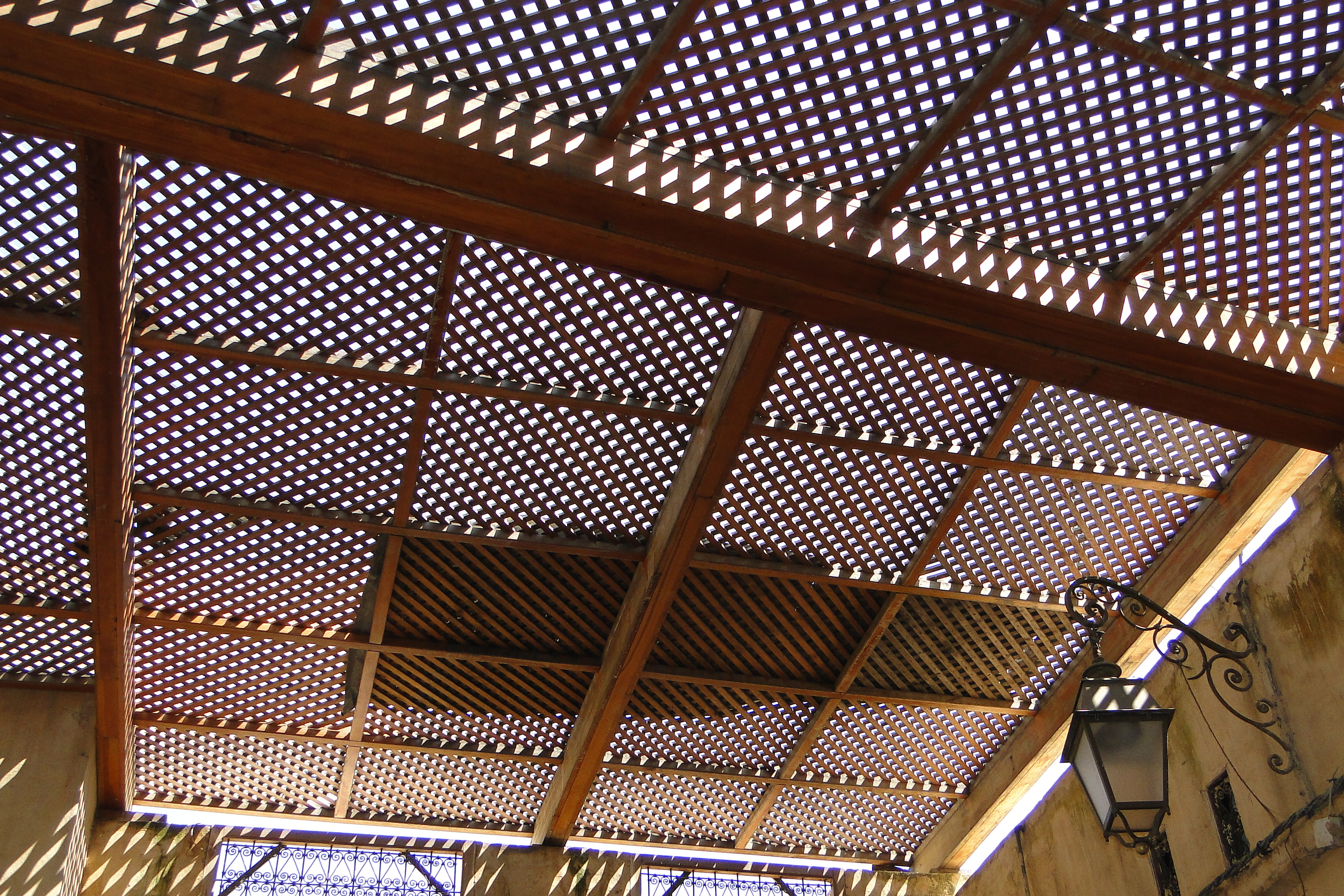 Ceiling of Bazaar - Medina (Old City) - Fez - Morocco